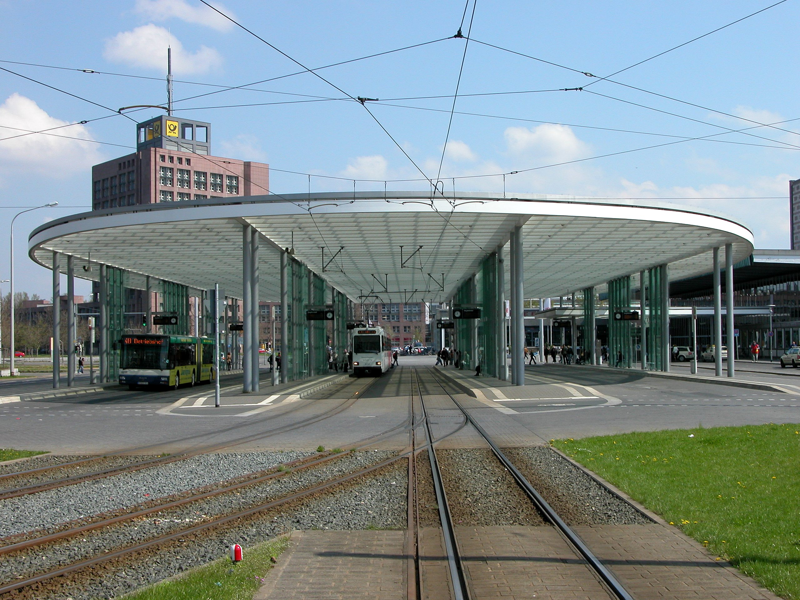 Brunswick, Germany: Combined station for buses and trams in front of Braunschweig Central Station (Braunschweig Hauptbahnhof) with bus and tram.